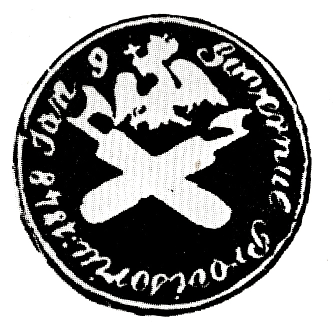 Seal of the provisional government during the 1848 Wallachian Revolution. The label reads: "Guvernul Provisoriu: 1848 Jun 9" "The Provisional Government: 1848 Jun 9"